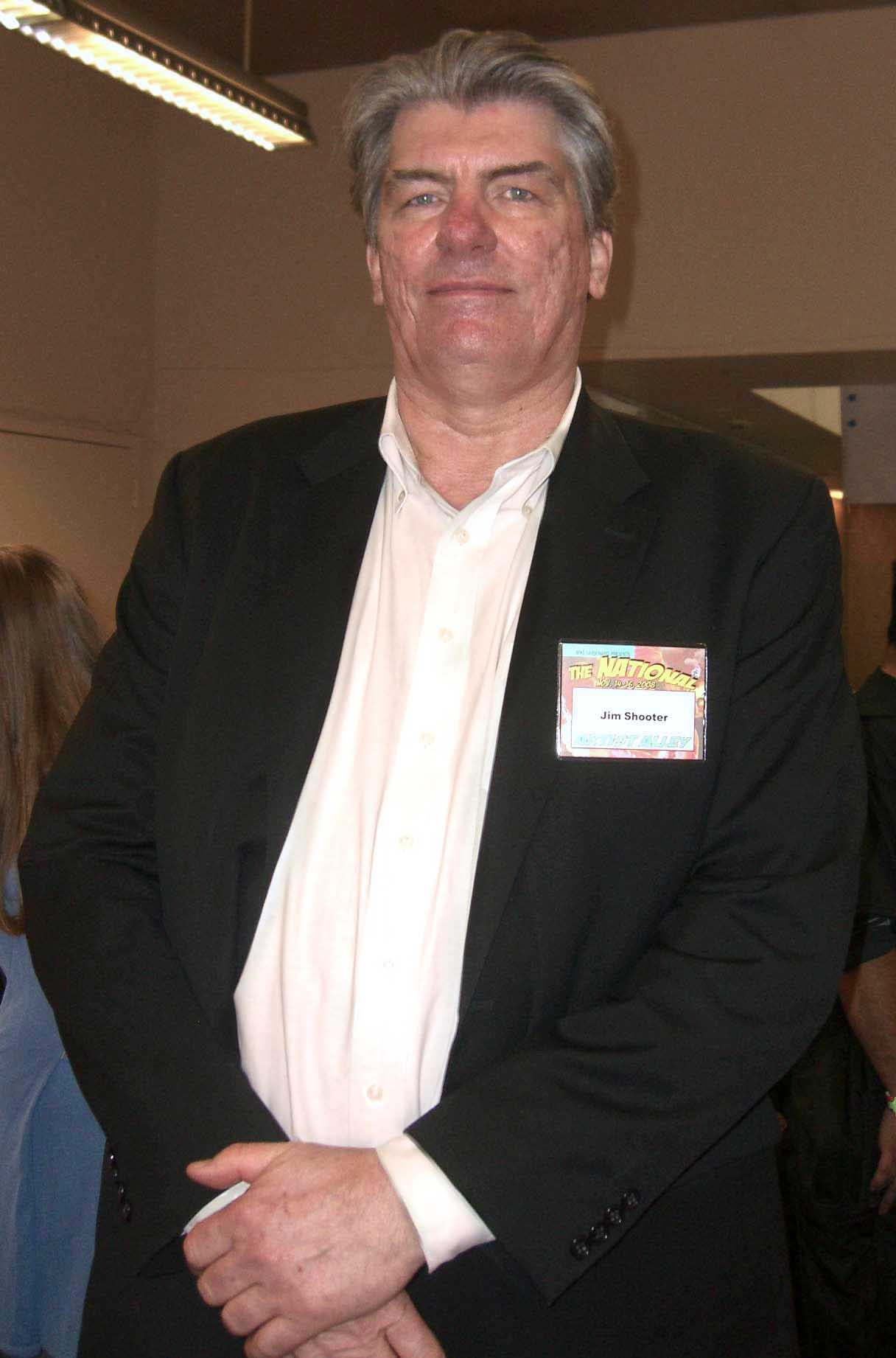 Comic book writer/editor Jim Shooter at the November 2008 Big Apple Convention in Manhattan, photographed November 15, 2008. This photo was created by Luigi Novi. It is not in the public domain, and use of this file outside of the licensing terms is a copyright violation.